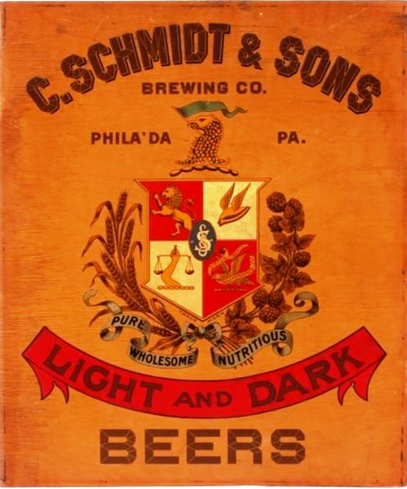 Pre-Prohibition sign for C.Schmidt & Sons Brewing Co.